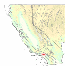 Map showing the Sierra Madre Fault Zone outlined in red — in the southern San Gabriel Mountains foothills, Los Angeles County, Southern California. Source of the 1971 San Fernando earthquake (Sylmar Earthquake).